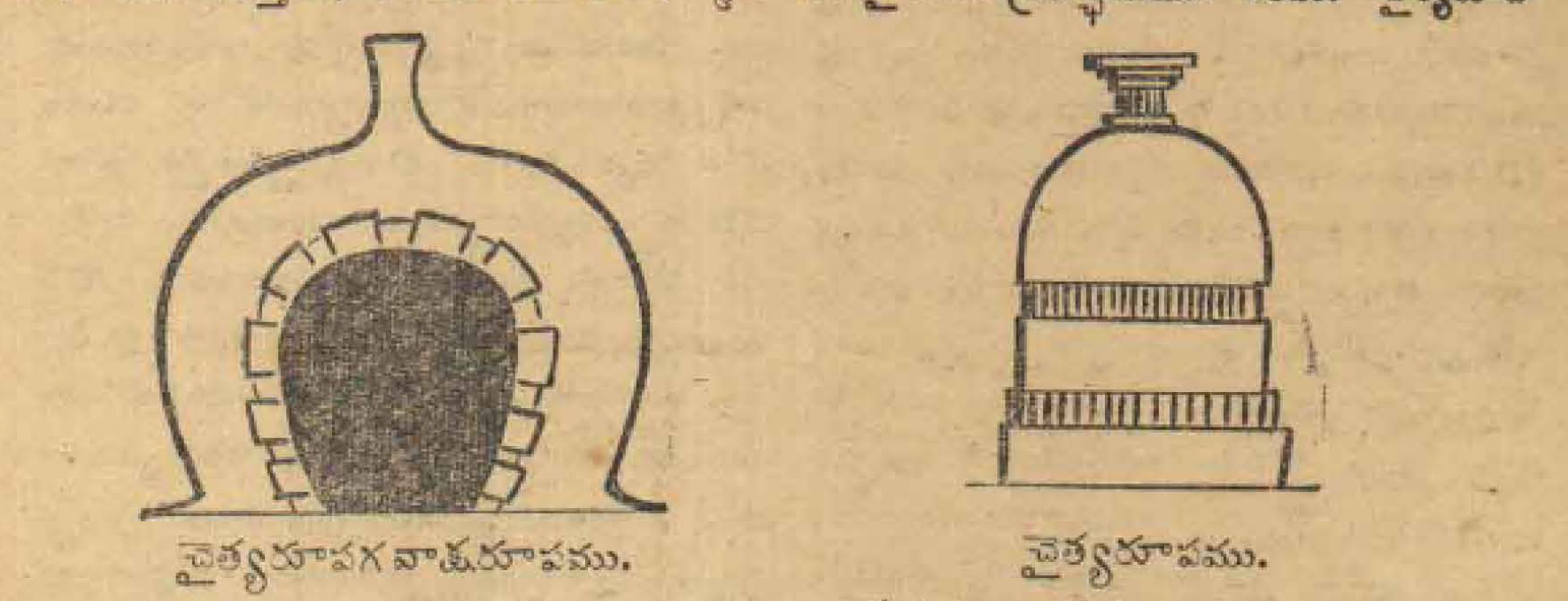 గవాక్షము